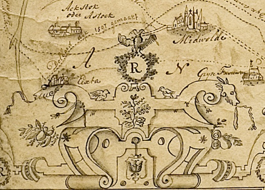 Map of the Dollard-bay by Jacob van der Mersch, Emden 1574, 2nd grade copy (cartouche)